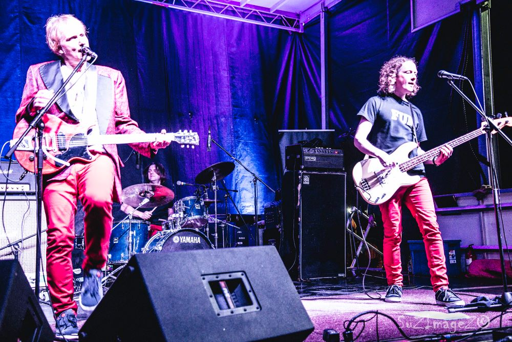 Killjoys live 2015